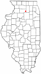 Category:Illinois city locator maps